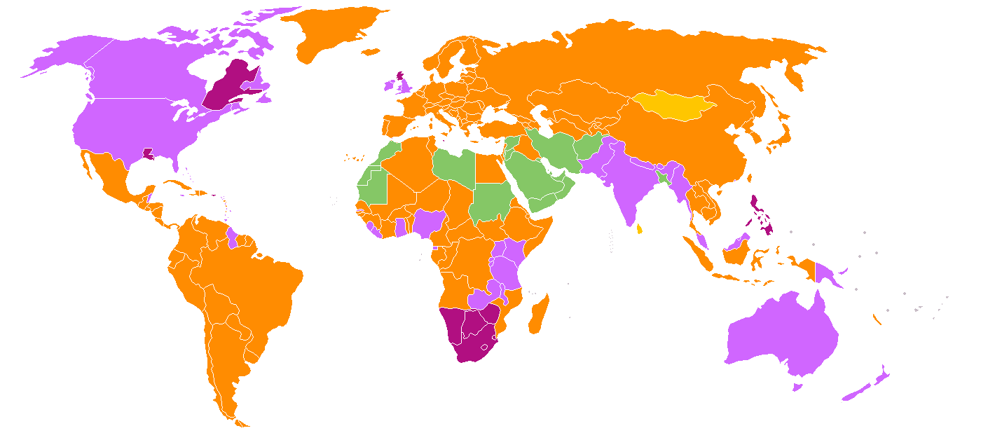 A map of legal systems of the world, in french. Source. (fr) Carte des systèmes juridiques dans le monde.